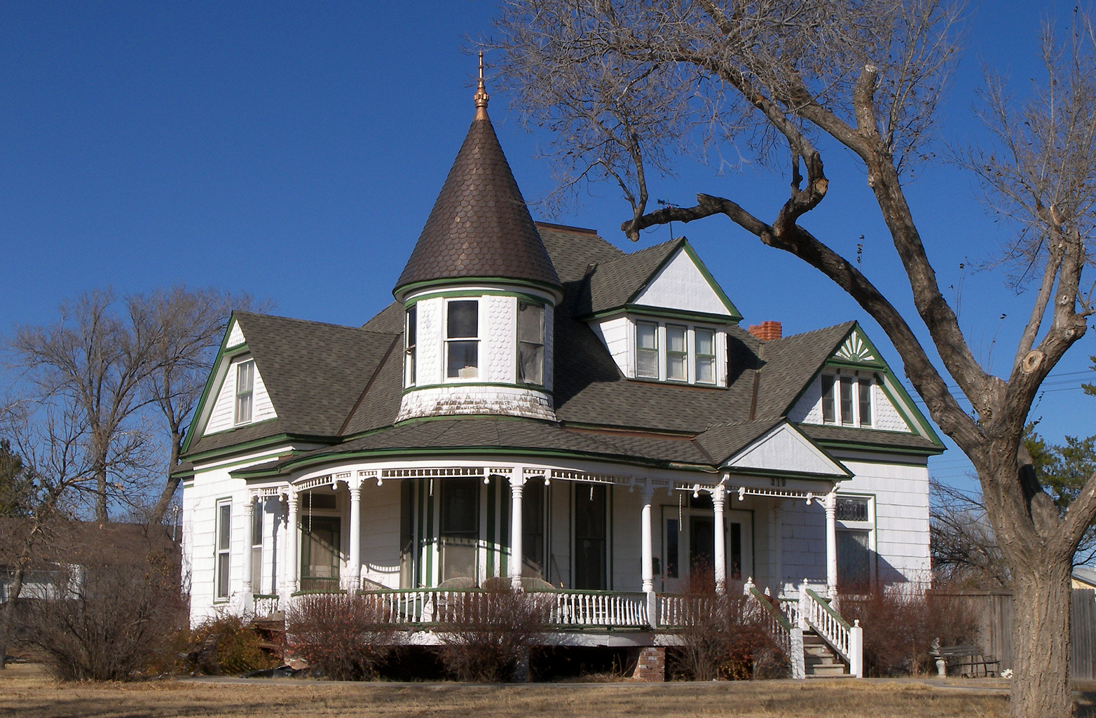 The L. T. Lester House at 310 8th St, Canyon, Texas, United States was listed on the National Register of Historic Places on September 13, 1978.